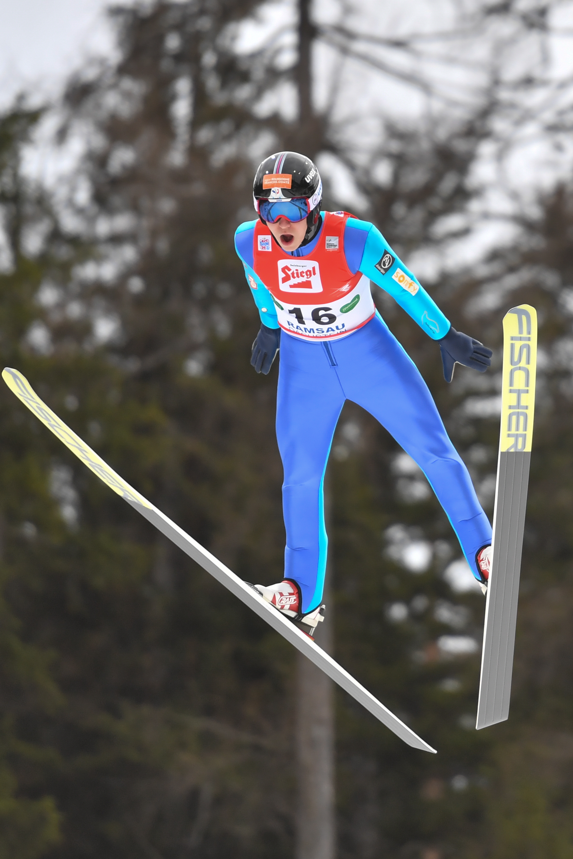 FIS World Cup Nordic Combined, Ramsau/Austria, 2016-12-16 to 2016-12-18.